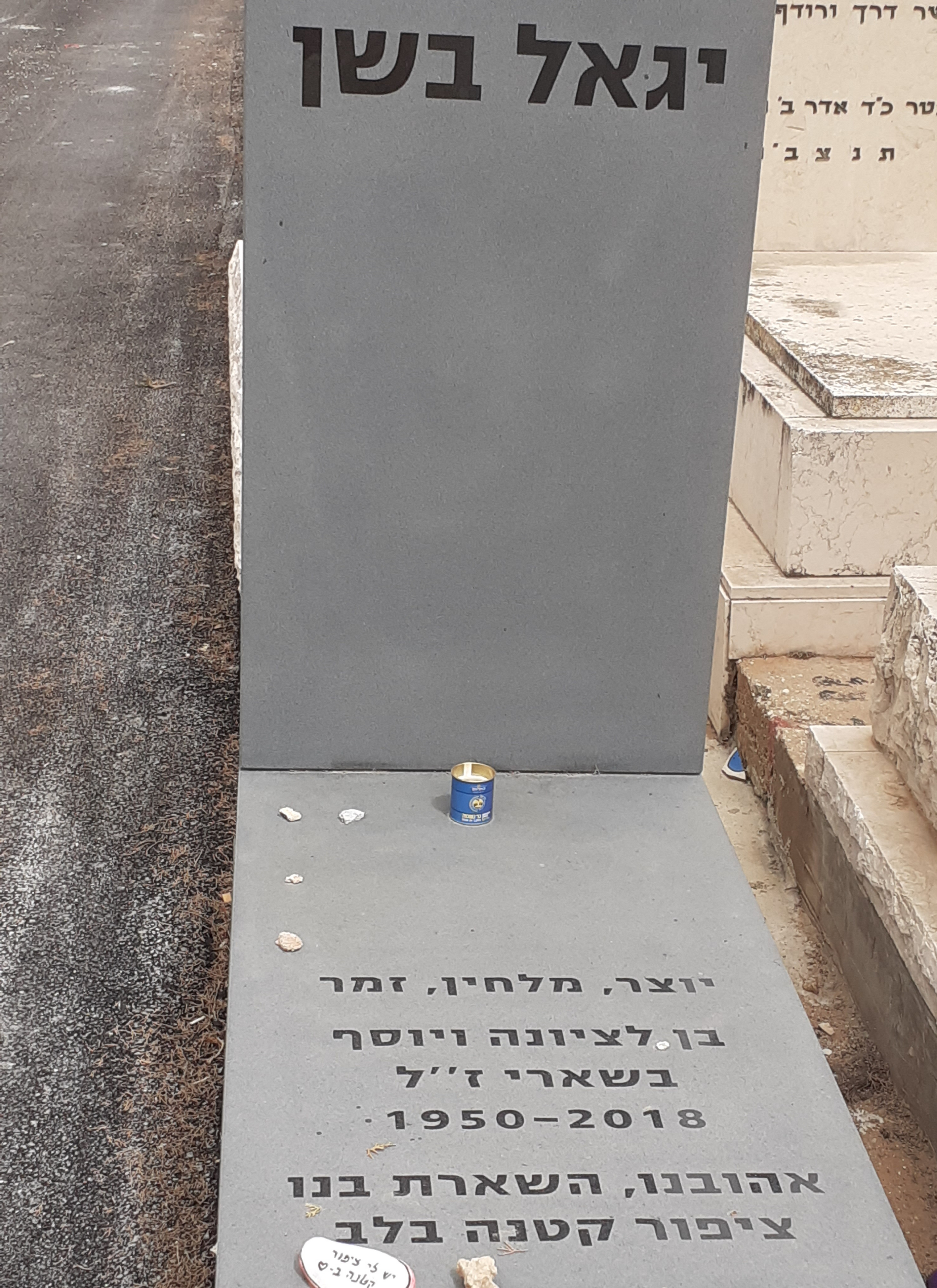 Gravestones of Yigal Bashan